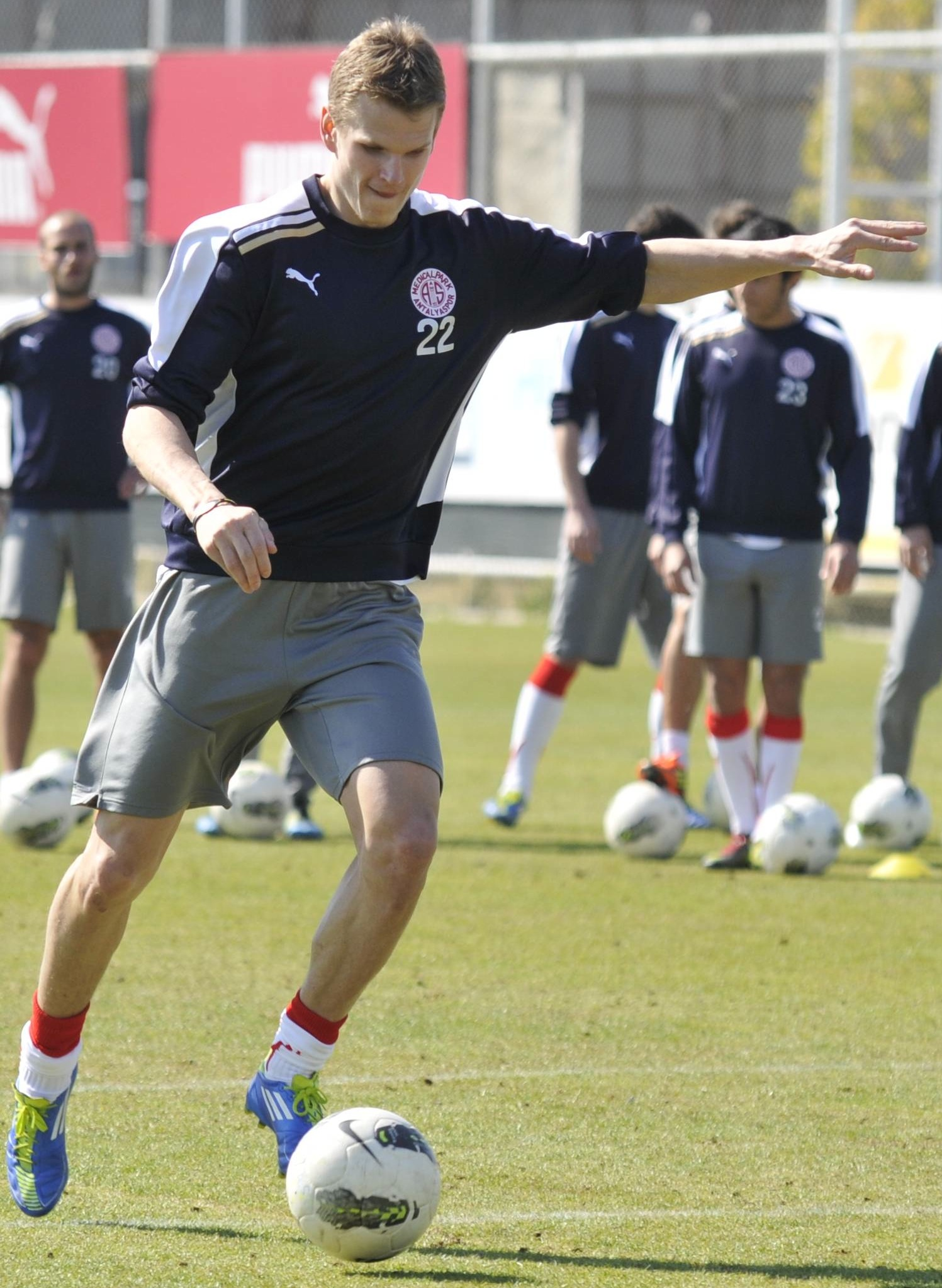 Photo : Murat Özgen